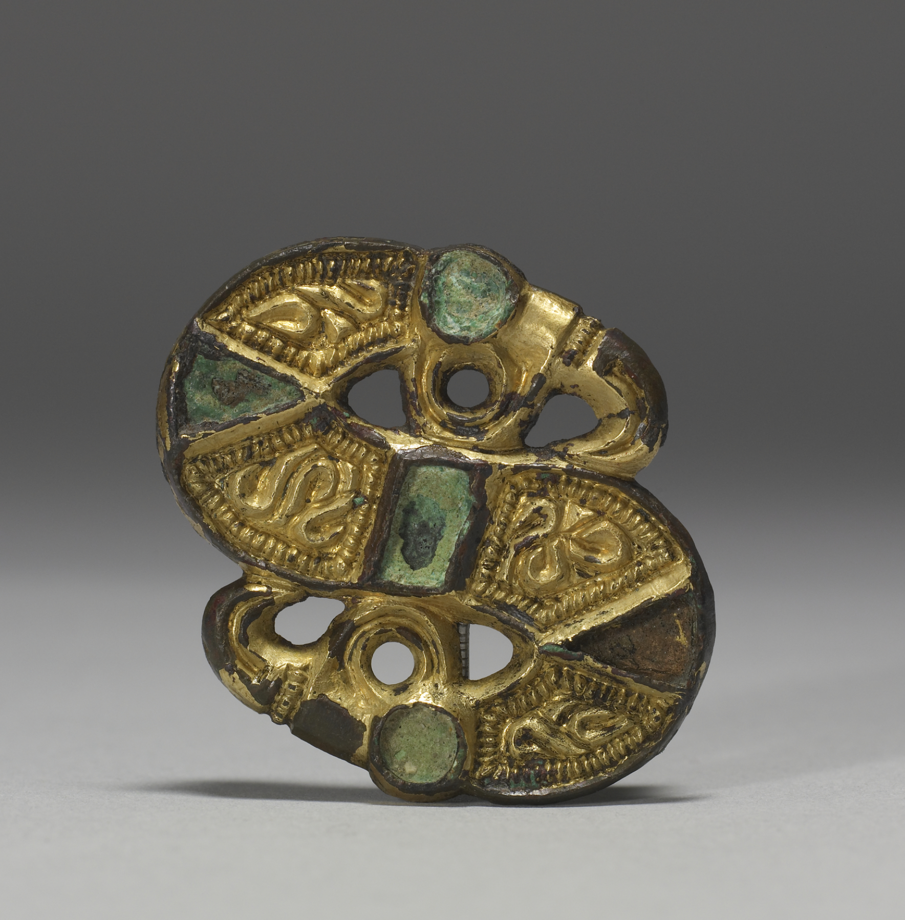 The Langobards, perhaps inspired by jewelry of the Goths, developed bird-headed, S-shaped fibulae during their 6th-century settlement in Pannonia (present-day Hungary). The body was cast from a carved mold and finished with gold gilding. The eyes originally were set with stones or glass. On the back, an iron pin set into a bronze hinge and J-shaped catch held the pin in place. The hinge and the catch are intact, while remains of the iron pin and the fragments of the textile to which this pin was attached remain in the hinge.